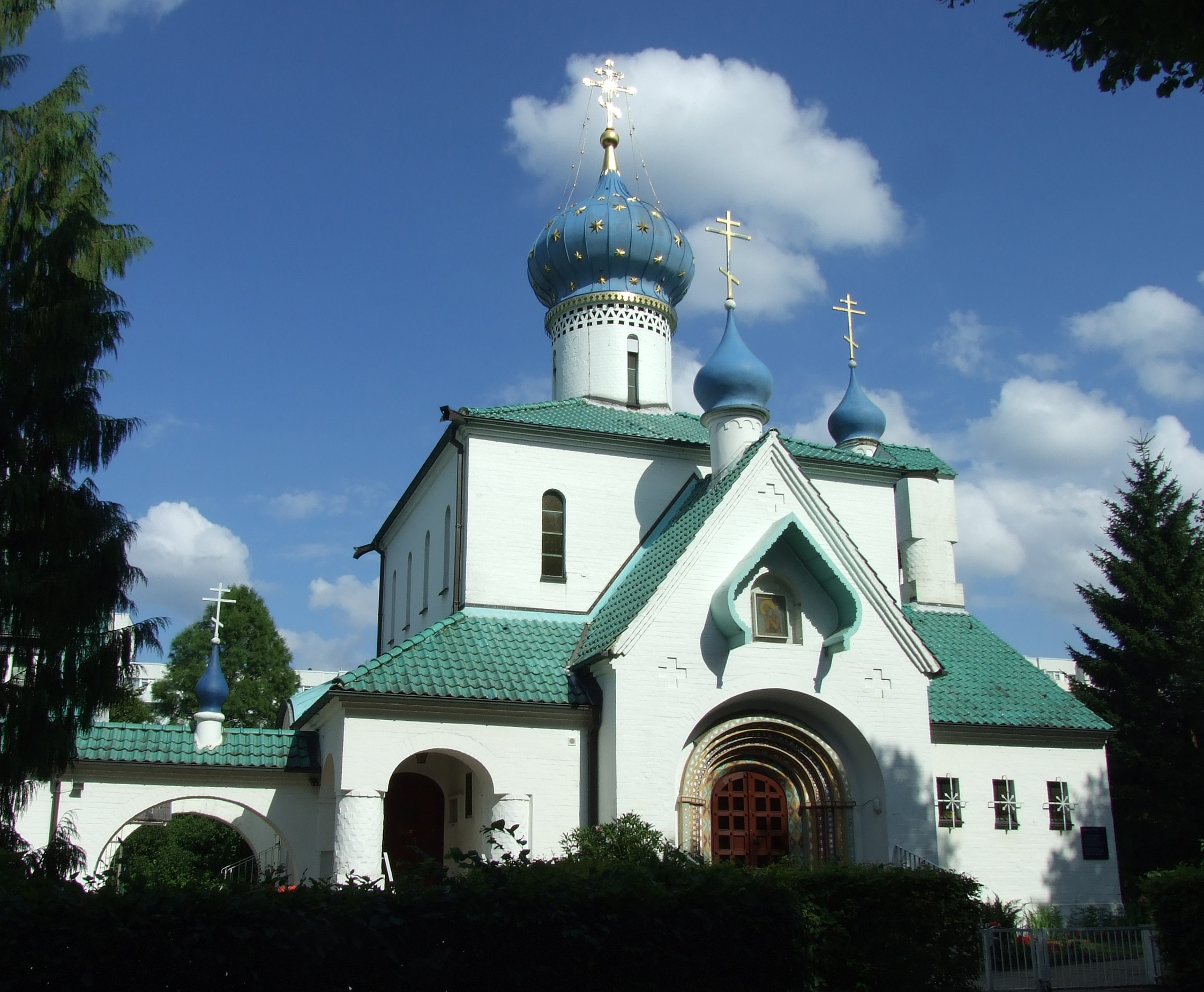 russian-orth. Church in Hamburg-Stellingen